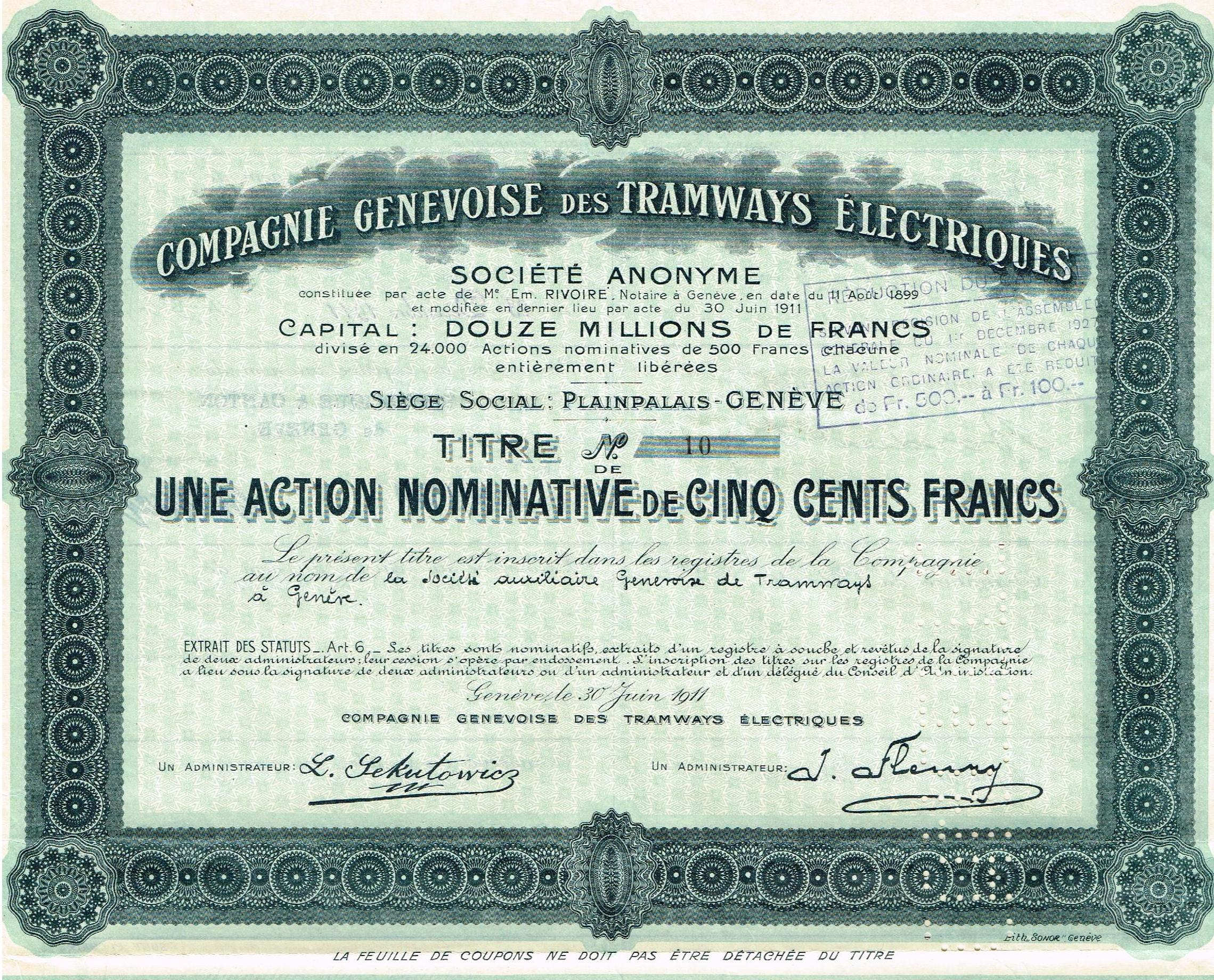 Share of the Compagnie Genevoise des Tramways Électriques, issued 30. June 1911